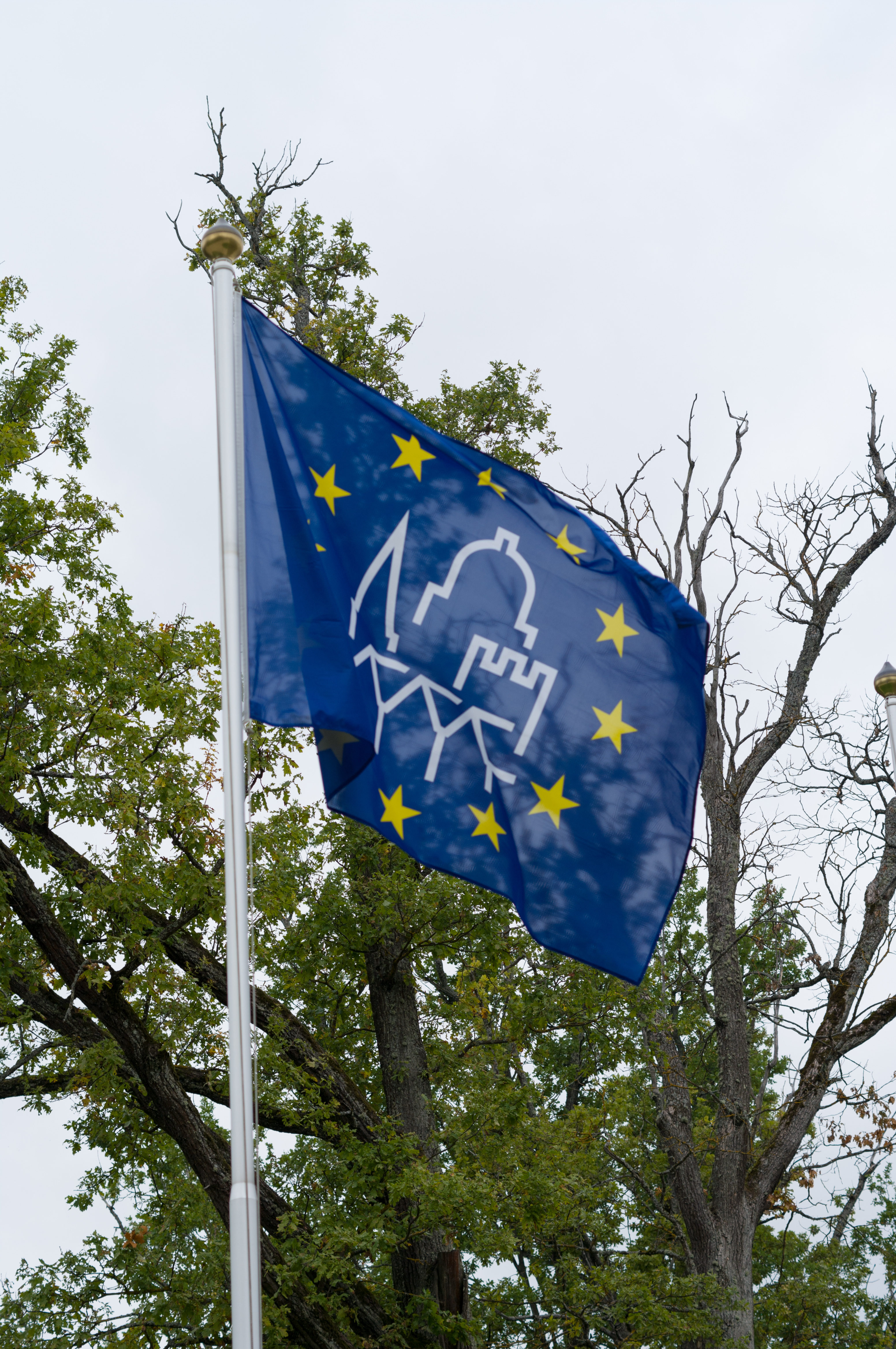 Europa Nostra flag in Vecgulbene Manor This photo was taken during a Wikiexpedition set up by Wikimedia Eesti. You can see all photographs in category WMEE-LV2013.